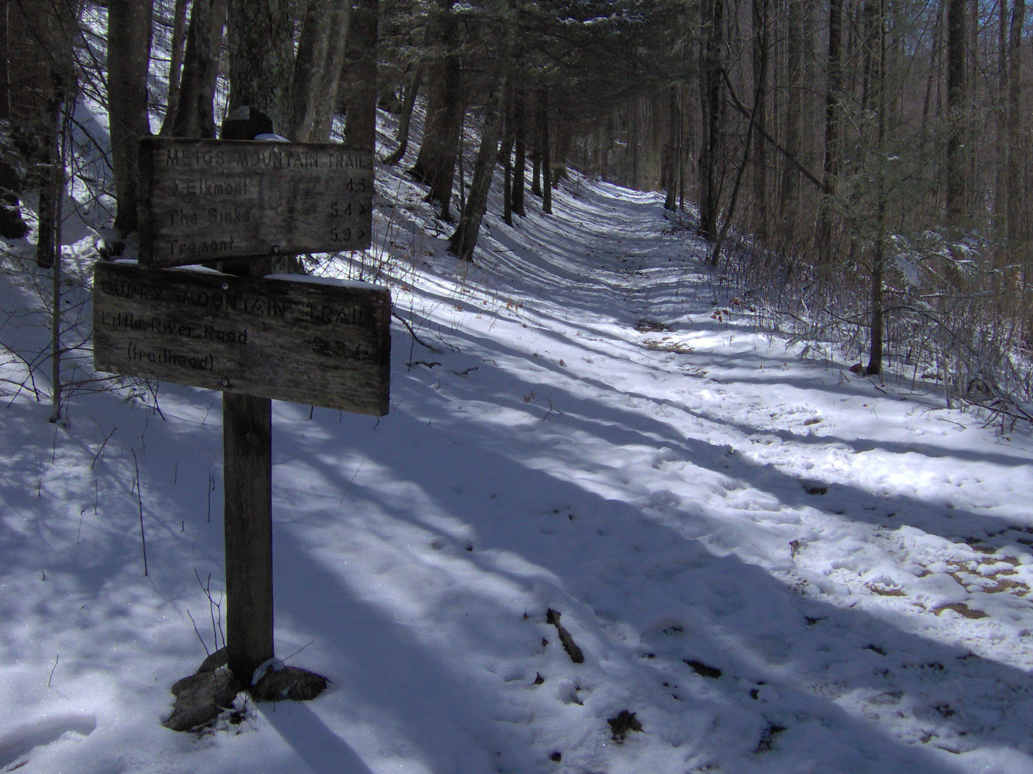 The Meigs Mountain Trail at the Meigs Mountain Trail/Curry Mountain Trail junction in the Great Smoky Mountains of East Tennessee, in the southeastern United States.